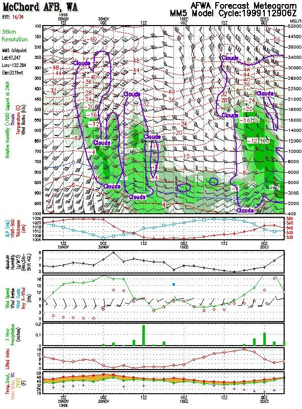 This image shows a meteogram for conditions expected at McChord Air Force Base in Washington, using forecast information from the MM5 forecast model